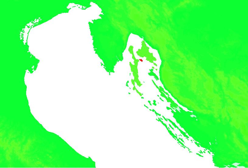 Island of Croatia Croatia - Plavnik.PNG